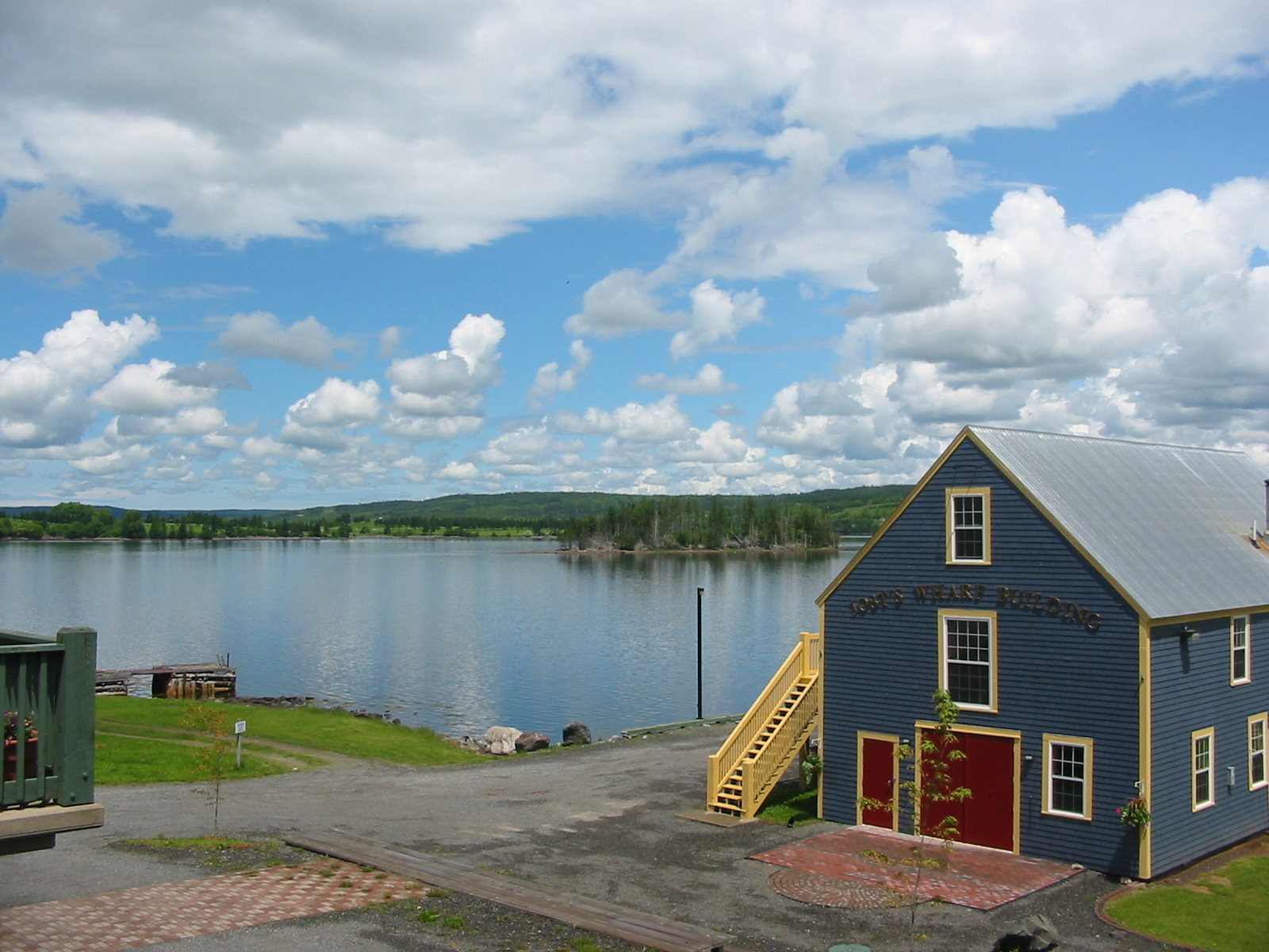 Guysborough Harbour as seen standing on the sidewalk in downtown Guysborough